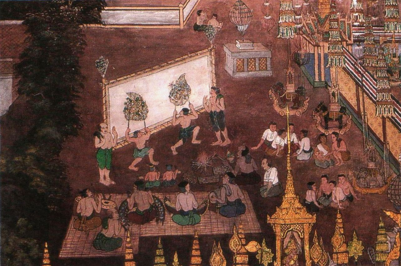 Nang yai shadow play. Mural showing Ramakian in Wat Phra Kheo, Bangkok